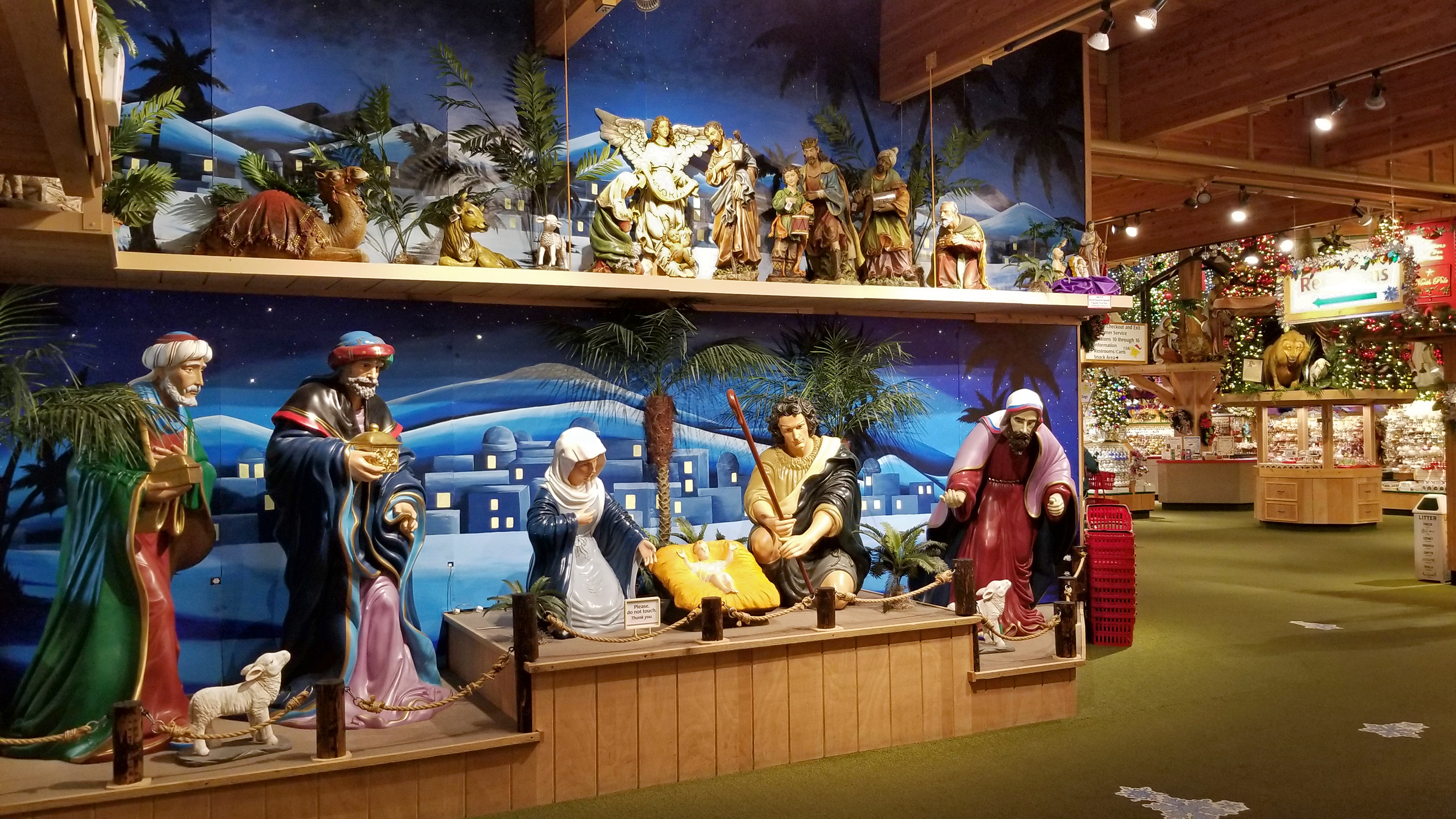 Bronner's Christmas Wonderland, tableau at the West Entrance (June 2019) and some of the stock displays